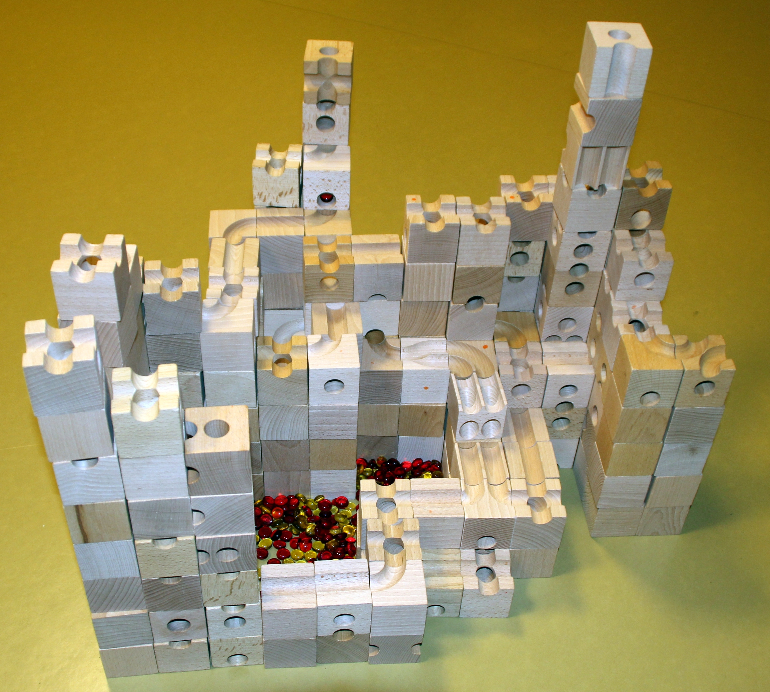 Cuboro Bahn